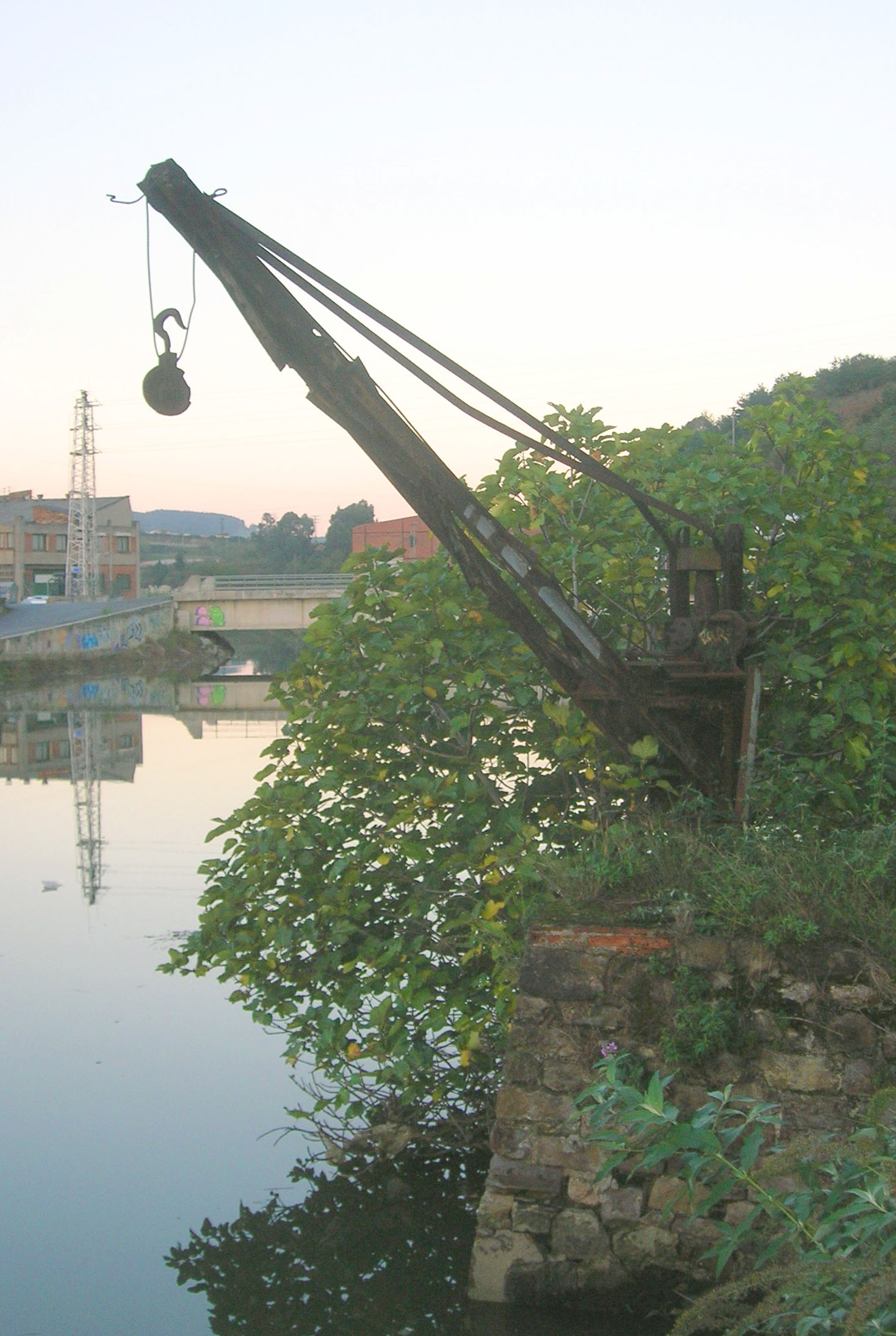 Old crane by the Asua ria. Luchana-Lutxana, Erandio, Biscay.